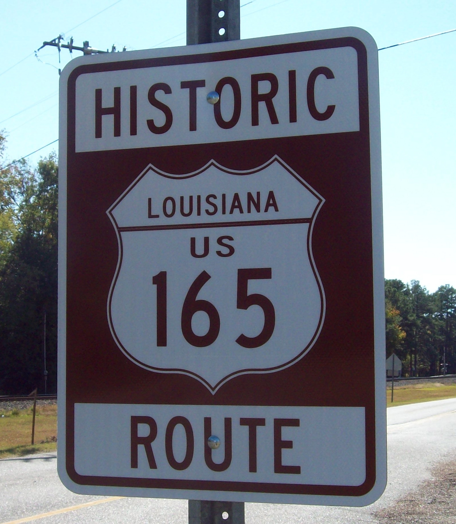 This sign designates the former U.S. 165 route in Louisiana. It is used along the current Louisiana Highway 125.